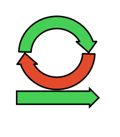 Meant to portray a wheel traveling to the right